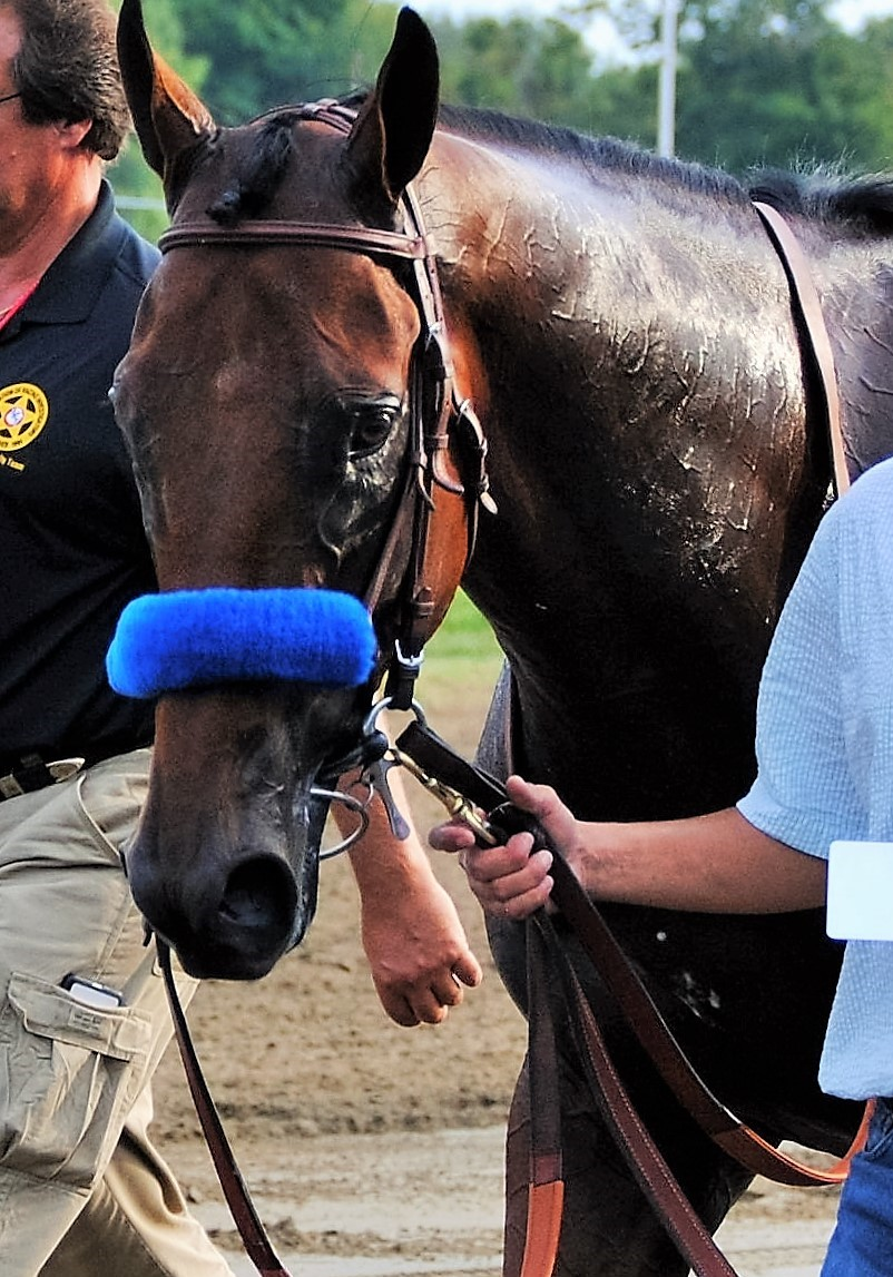 American Pharoah was valiant in defeat after the Travers. 2015 Saratoga